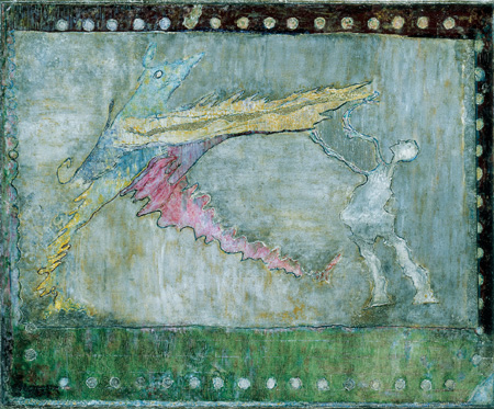 Painting by Ilka Gedő at the Hungarian National Gallery MONSTER AND BOY oil on canvas, 55 x 66 cm